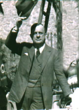 Photographic portrait of Thomas Jefferson 'Jeff' Penn, tobacco heir, cattle breeder, farmer and builder of 'Chinqua-Penn Plantation' at Reidsville, North Carolina. Courtesy of North Carolina State University.